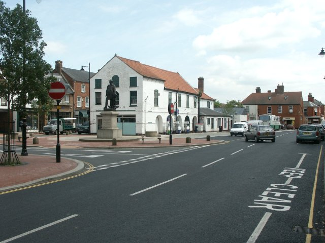 Spilsby Town Centre, showing Old Town Hall